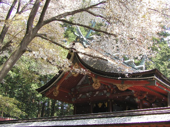 Aspect of Shiogama Shrine in Spring.